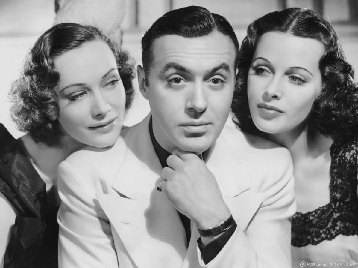 L. to R. : Sigrid Gurie, Charles Boyer & Hedy Lamarr - Publicity still for Algiers